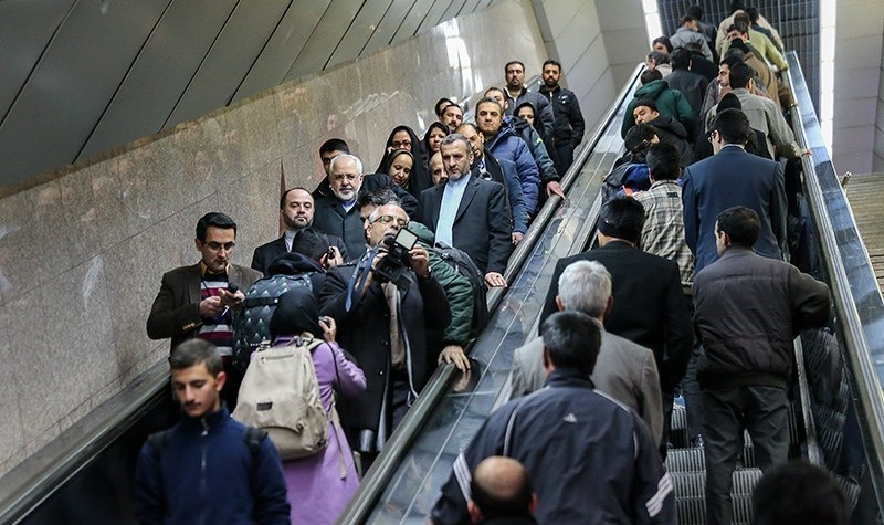 Iranian Foreign Minister, Mohammad Javad Zarif departures to his office by using metro in national healthy air day